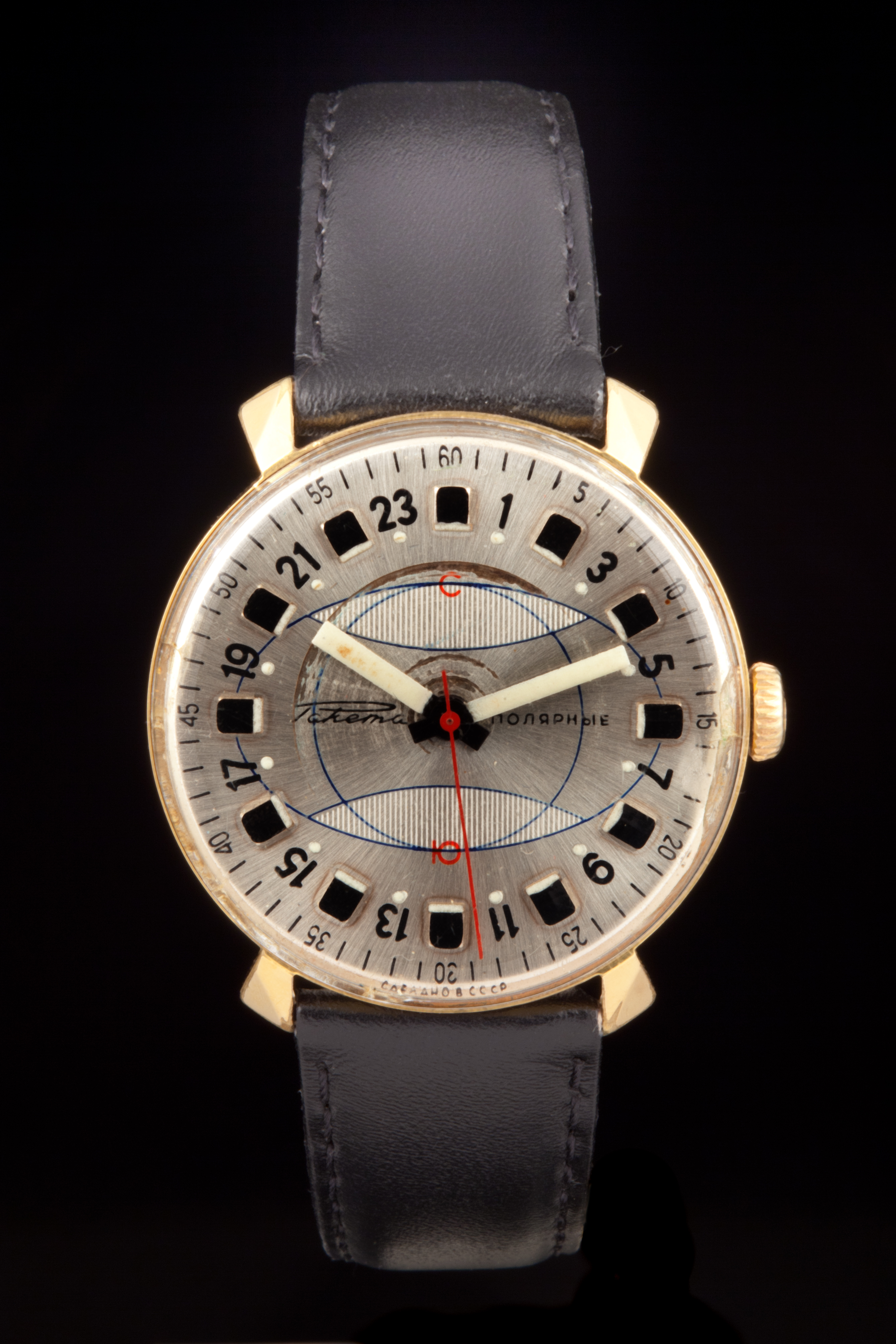 Soviet Polar Expedition watch from 1969 - produced by Raketa